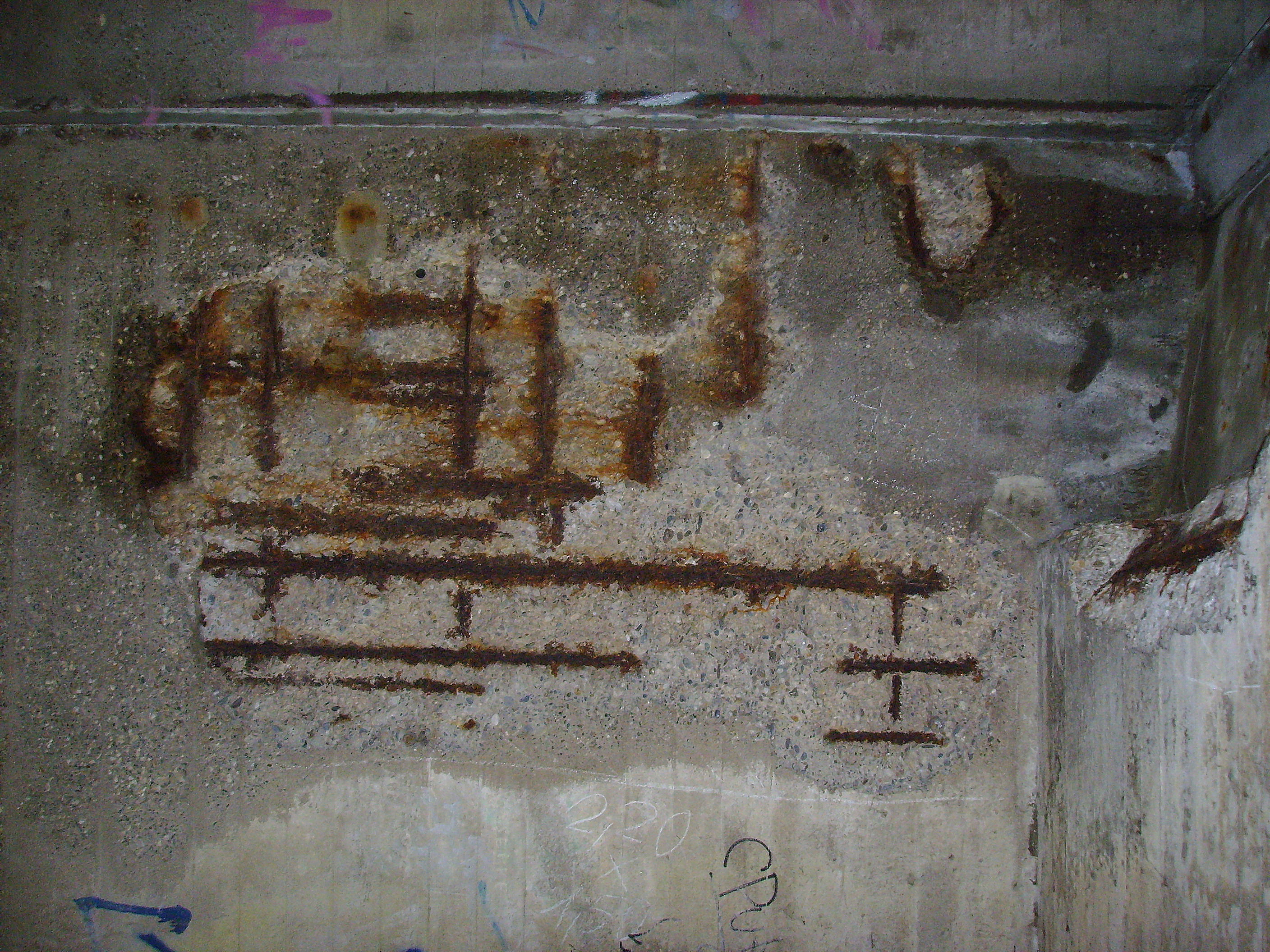 Corrosion of concrete under a bridge of the German motorway A 661 in the north of Frankfurt am Main